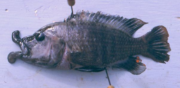 Abactochromis labrosus (formerly Melanochromis labrosus). Fully grown adult male (119.0 mm SL when fresh, 115.0 mm SL as preserved - YPM 15189) collected with trammel and experimental gill nets set in 6-45 meters depth, overnight 24-25 July 1980 at Nkhata Bay, Malawi, off the southern shore of the south bay near emergent offshore rocks, ~75 meters from shore. This is the largest specimen ever collected. The soft, fleshy lip lobes (which are covered with taste buds) are curled back against the head in life; here, the lobes have been moved forward to show their full length.